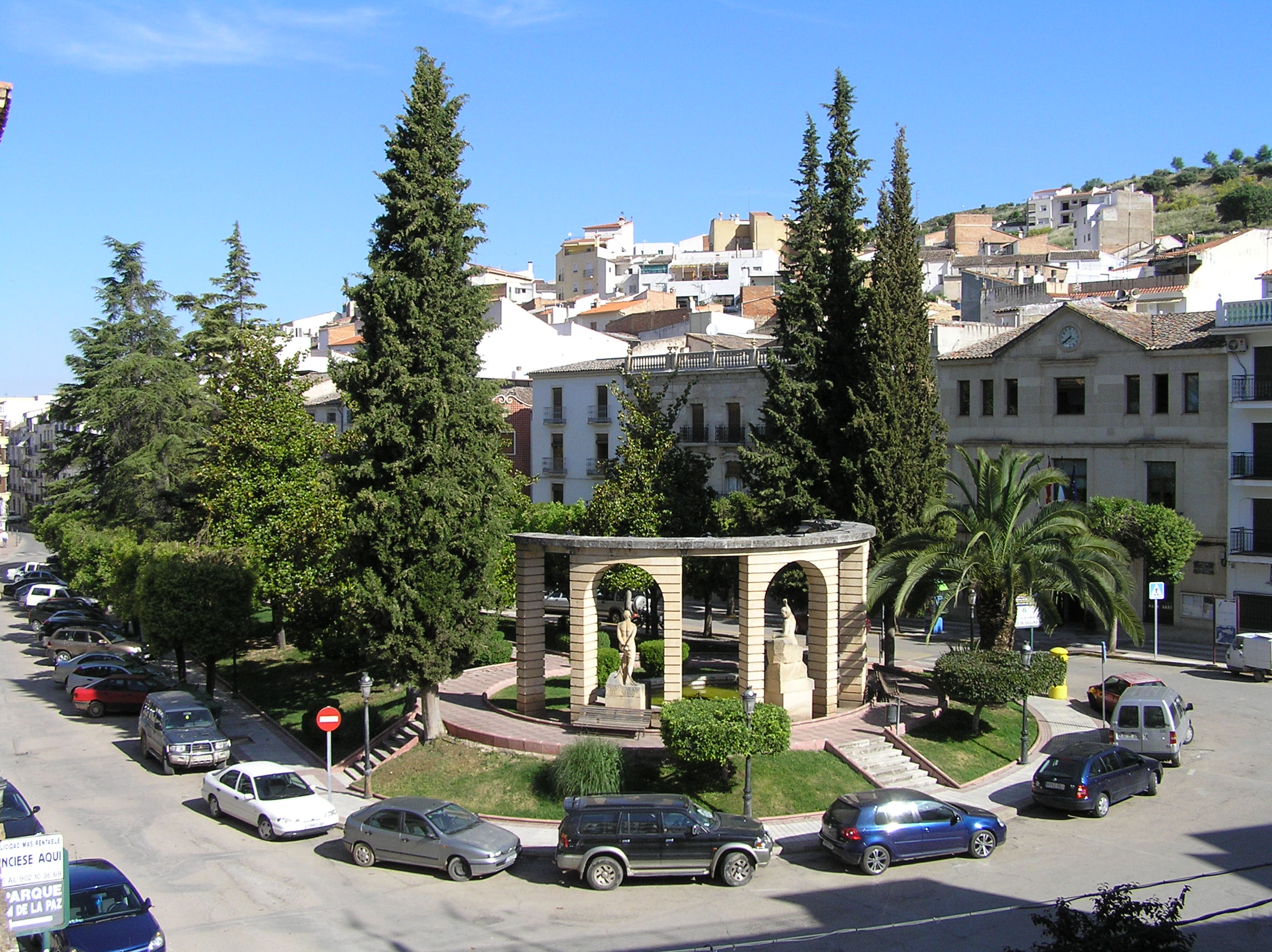 Paseo de la Constitución